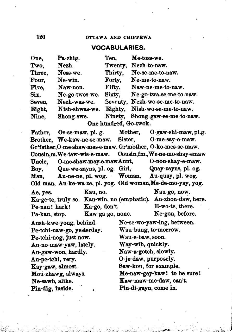 Page: 120 Title: History of the Ottawa and Chippewa Indians of Michigan a grammar on their language, and personal and family history of the author. Publisher: Ypsilanti, Michigan: Ypsilanti Job Printing House. Source: Scanned from a CIHM microfiche of the original publication held by the National Library of Canada.